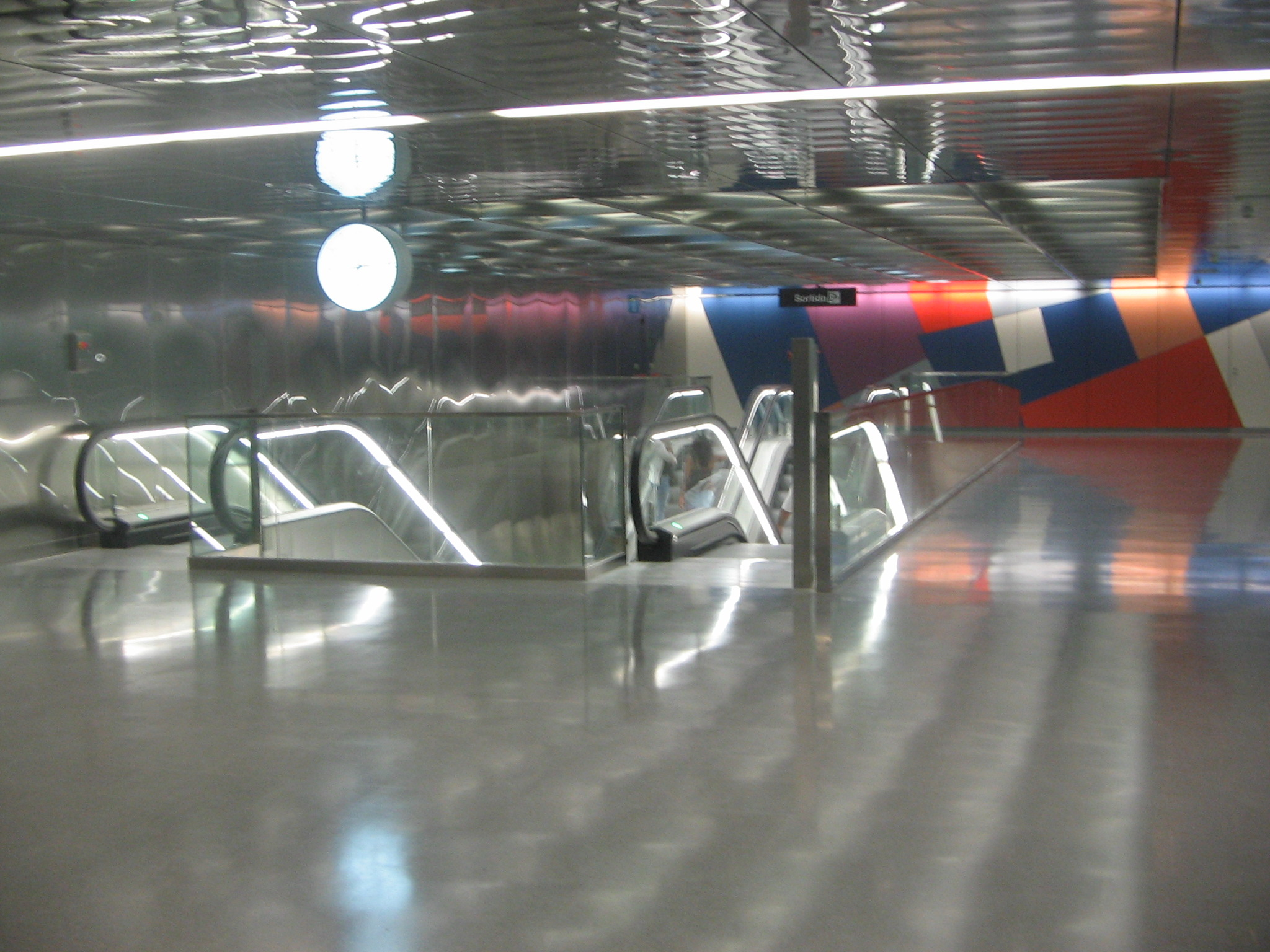 La Sagrera station